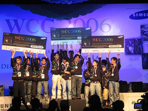 WCG Malaysia 2006 Warcraft 3: DoTA winners